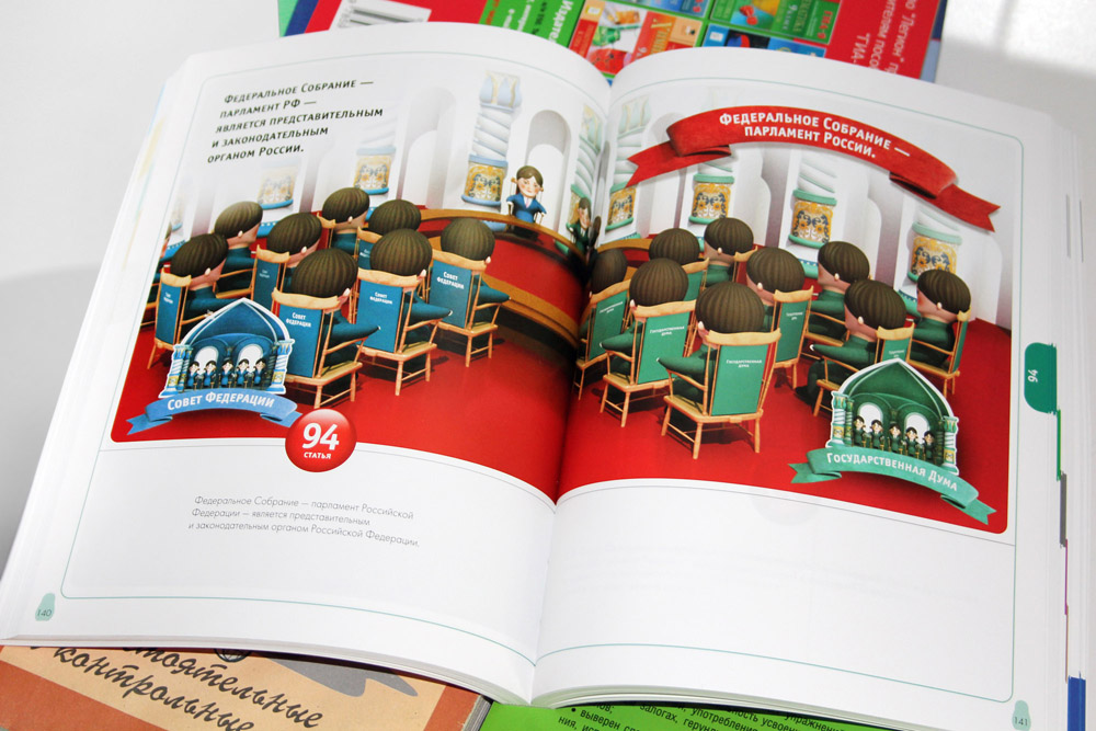 «Russian Constitution Illustrated» book. Artwork by Natalia Khudyakova and Maxim Gorelov. «We will give the Constitution to the people!» We are glad to present the second edition of «Russian Constitution Illustrated» book (ISBN 978-5-9903543-2-6). The decoration of structural logic and infographics in the constitutional-legal field are so rare phenomenons that we can talk about the uniqueness of this publication. The book is logically illustrated by pictures and patterns made in the traditional style. It makes legal language of Constitution reading much more easier. The Constitution of Russian Federation text in Russian and English is verified with official sources and includes all adopted amendments. This informative publication can be special Russian souvenir and great gift. Thank you for your interest to the main book of Russia! Award: «Muses of the World» IV International competition: 1st prize in the category «Graphical Design», for the artwork in the book «Russian Constitution Illustrated».